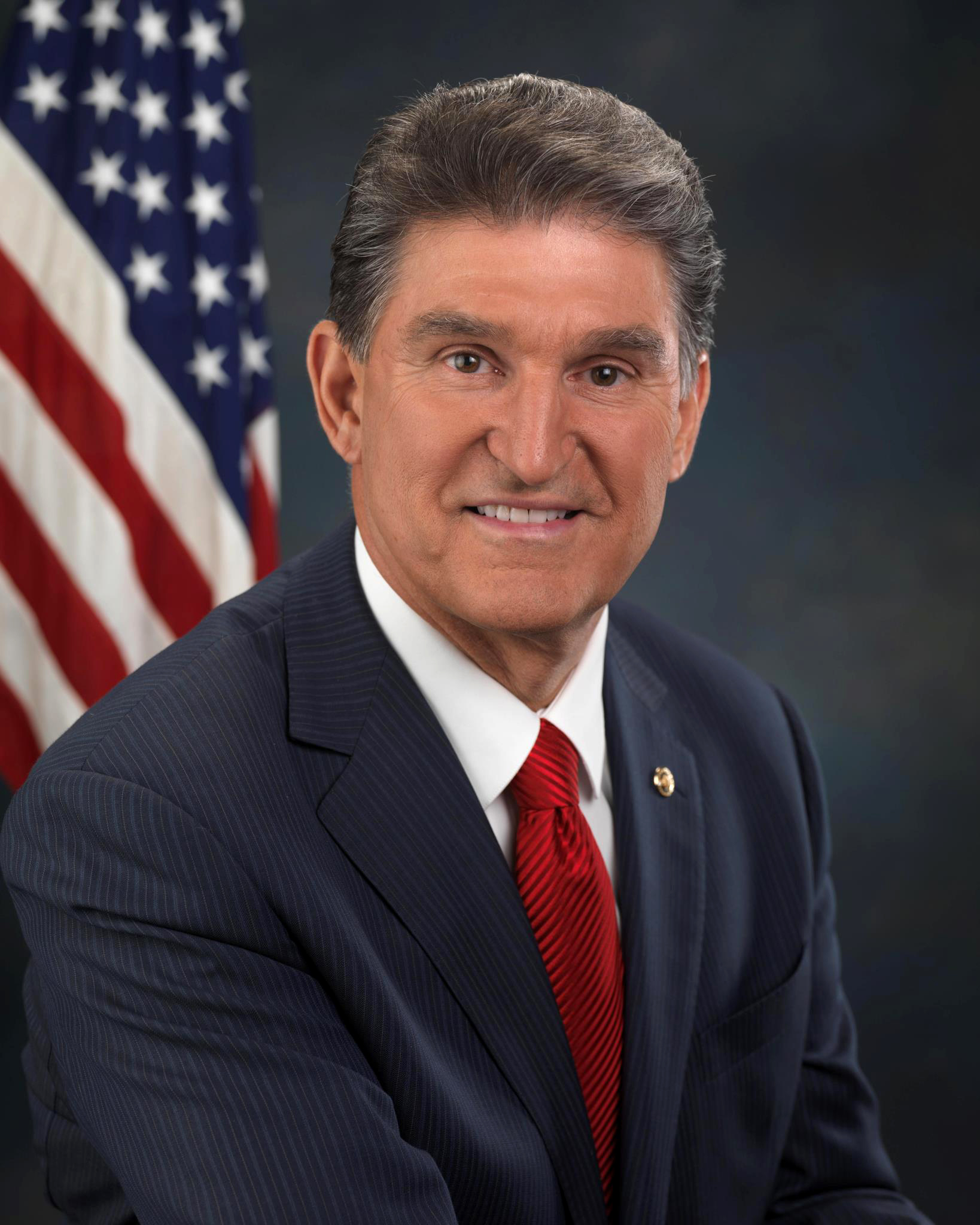 Official portrait of Senator Joe Manchin of West Virginia.